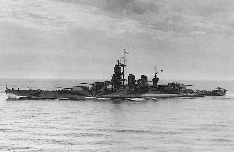 'Vittorio Veneto'